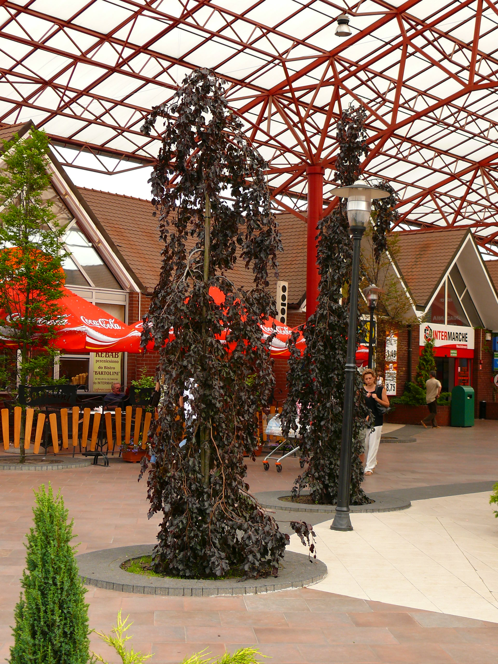 Fagus sylvatica